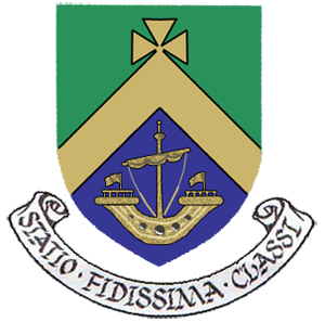 Cobh coat of arms, ireland